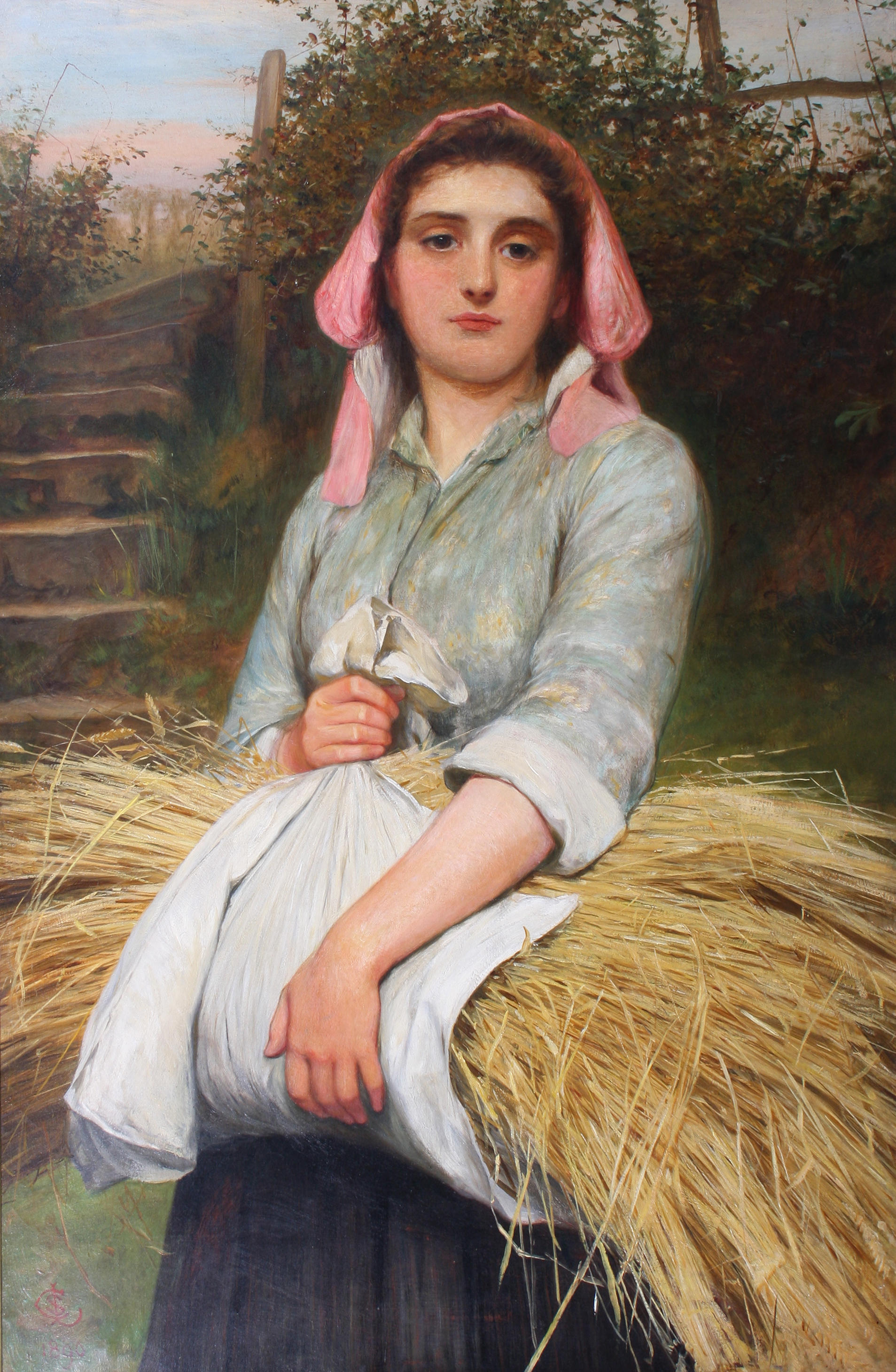 The Gleaner. Signed with monogram and dated 1890, titled on mount; Oil on canvas; 101.5 x 66 cm